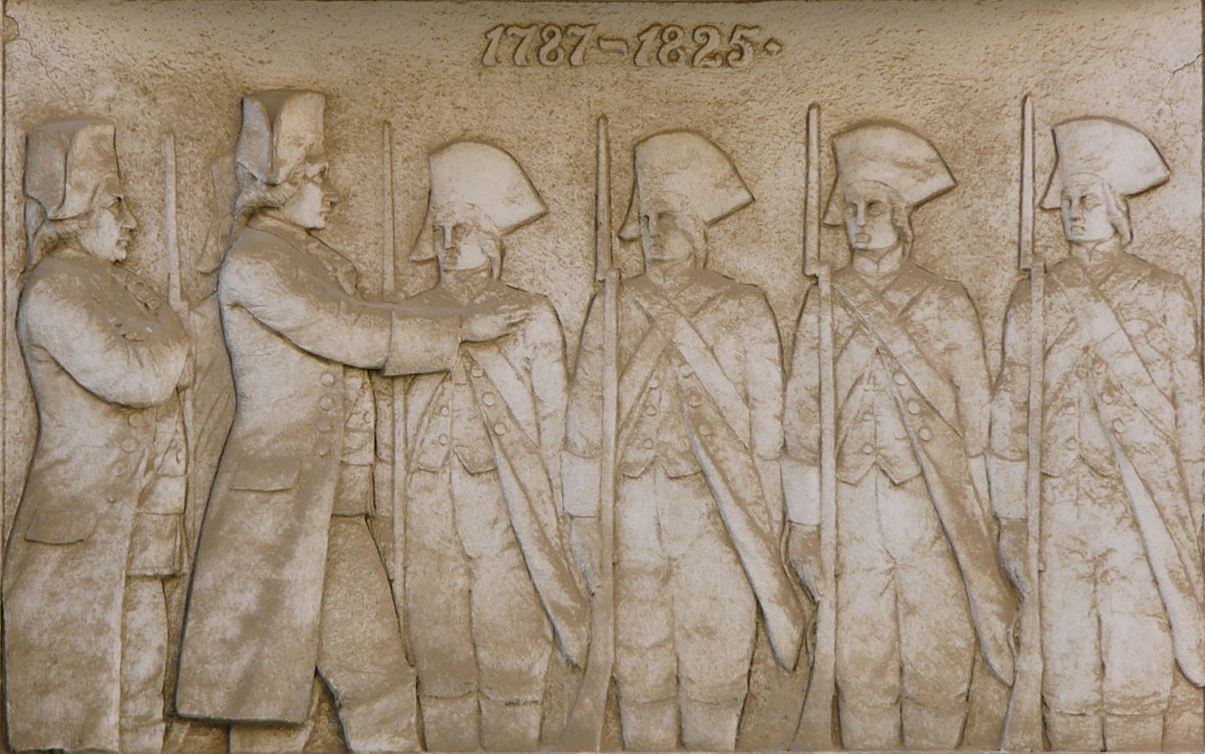 Soldiers - relief of Austrian infantry. Austrian commissioned officers. From sometime between 1787 and 1825. They're wearing bicornes. Guns are smoothbore muskets probably, so the soldiers are musketmen or musketeers. Locality: building of Museum of Art in Olomouc, The Czech Republic. relief was made by Moritz Lau from Munich See also: [1]